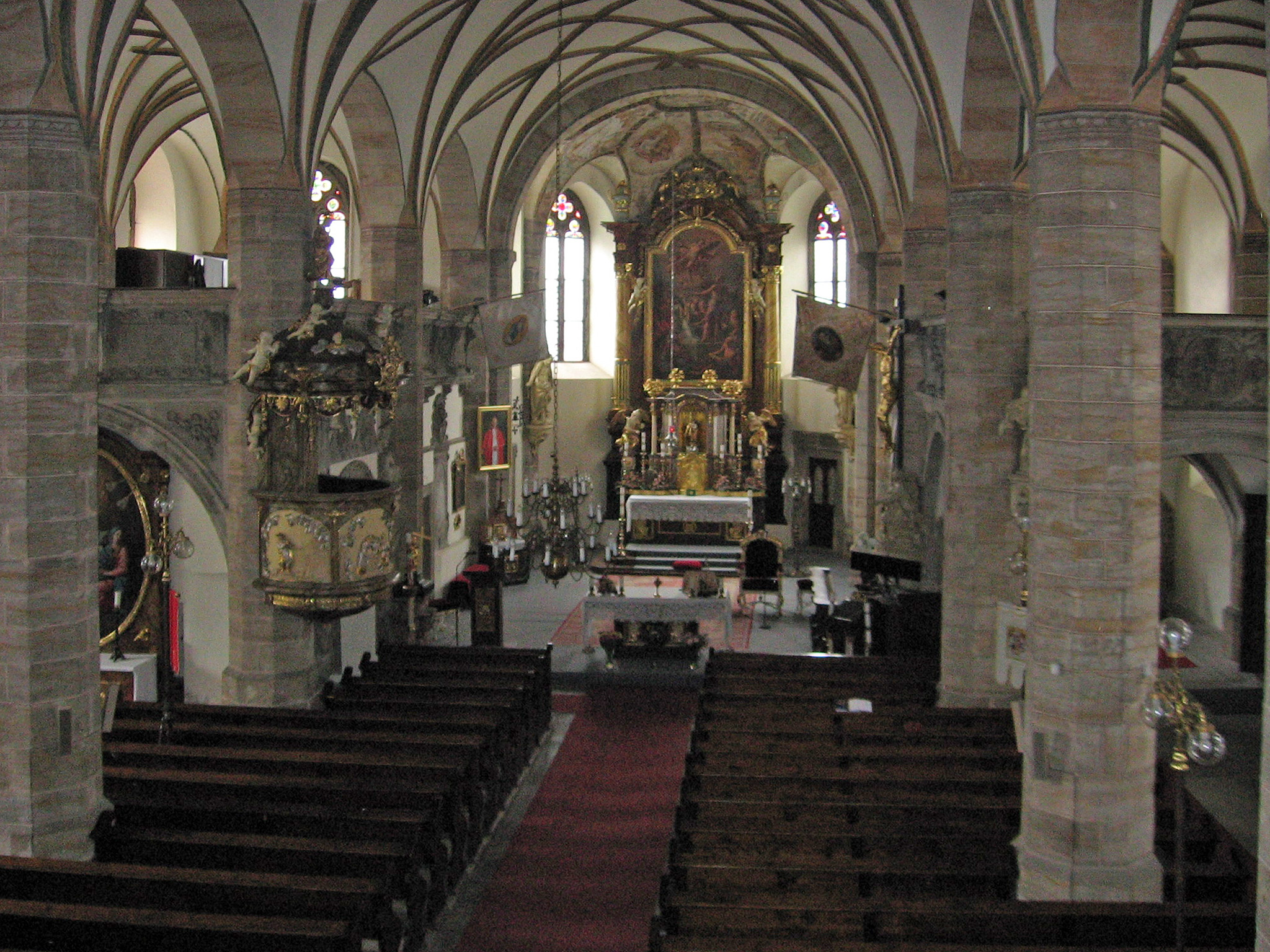 Interior of the Dean Church of St James the Greater in Česká Kamenice (Czech Republic)